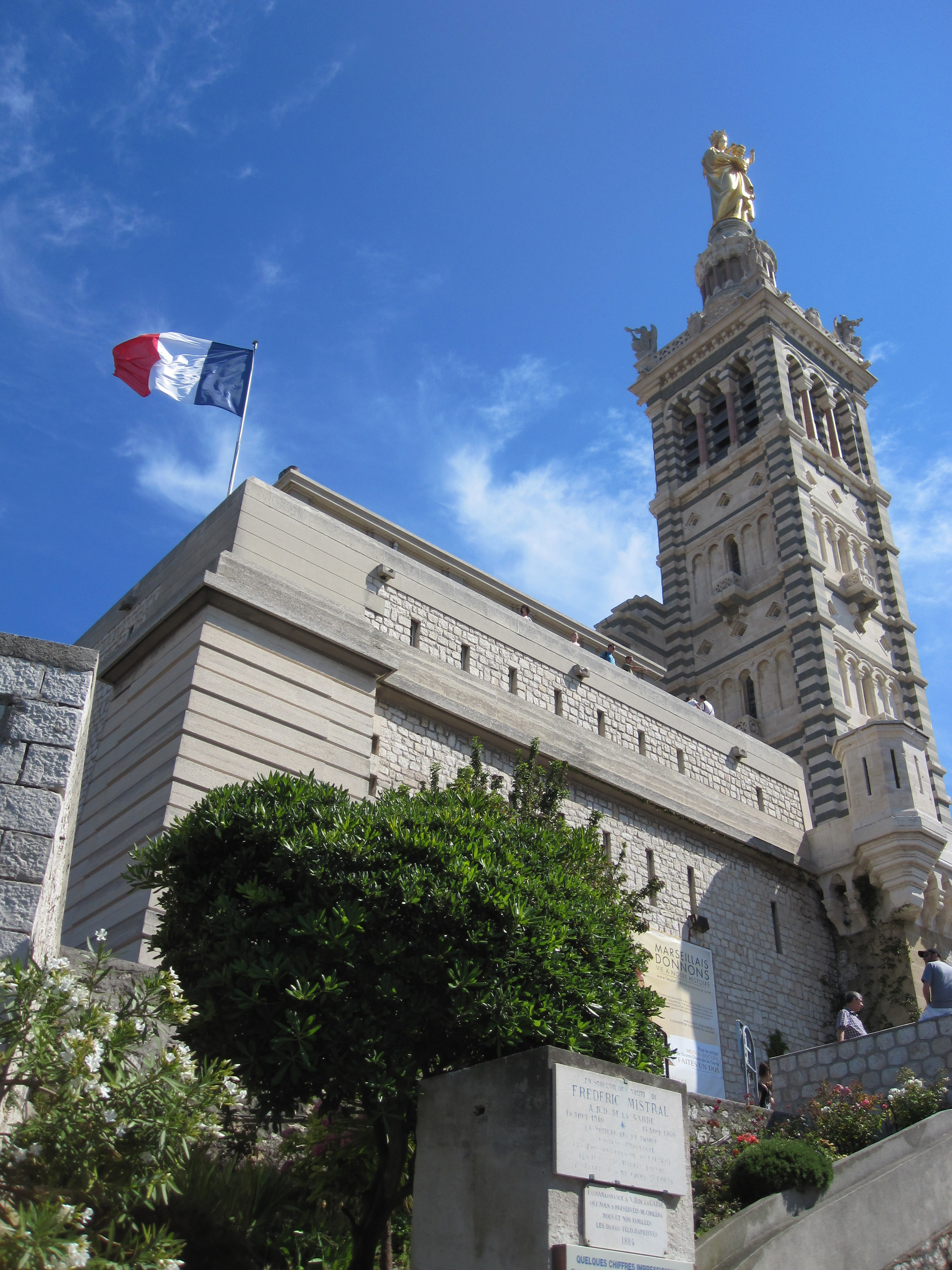 Notre-Dame de la Garde, Marseille, France